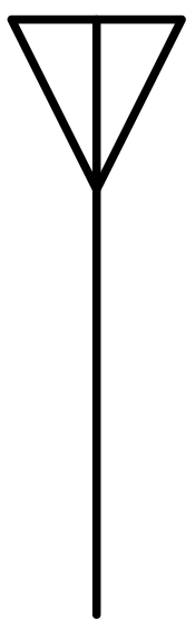 A symbol for a radio antenna used in schematic diagrams